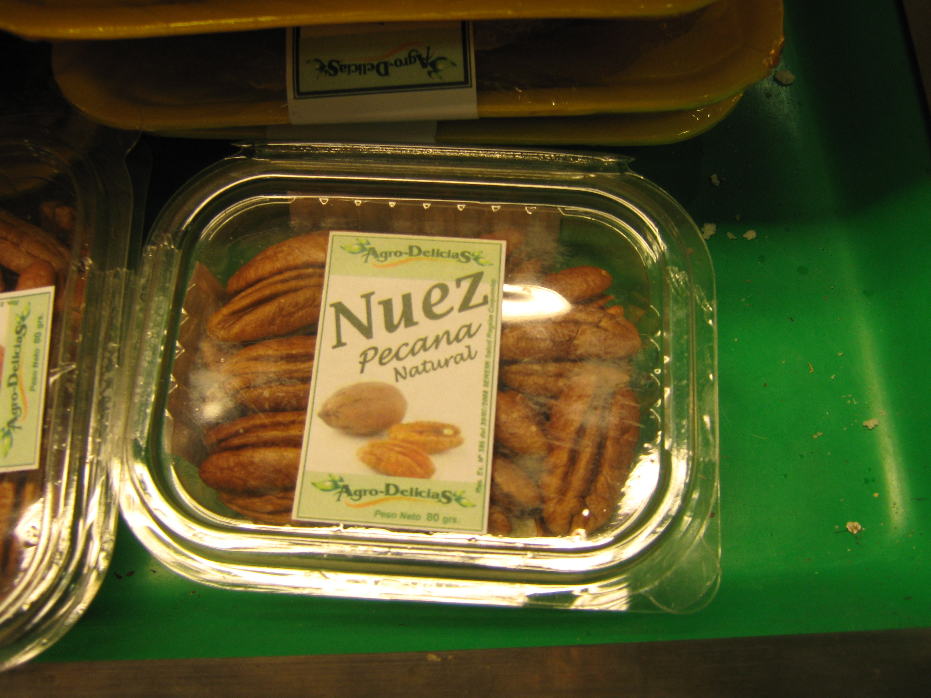 Carya illinoinensis market produce